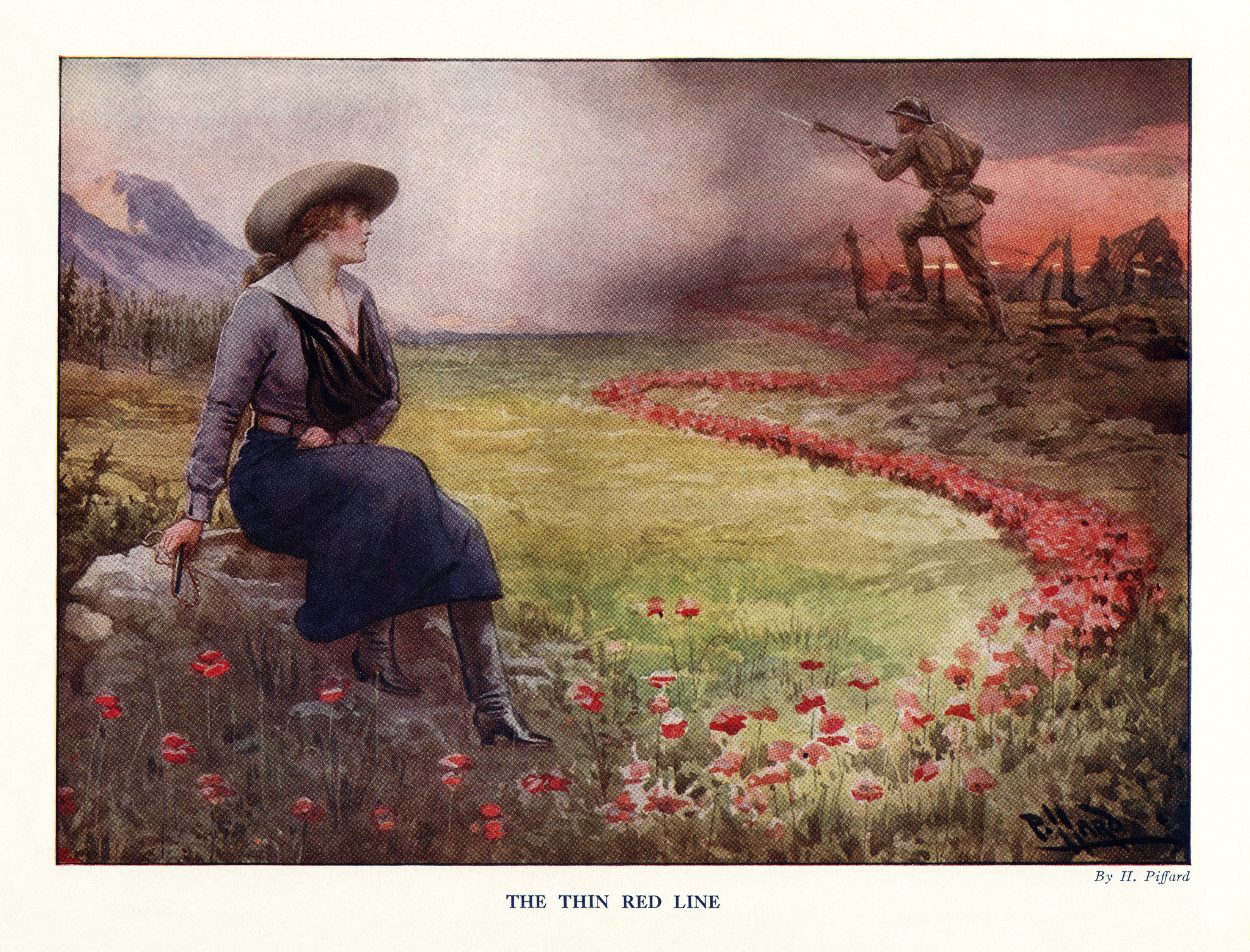 The Thin Red Line, an illustration from Canada in Khaki.